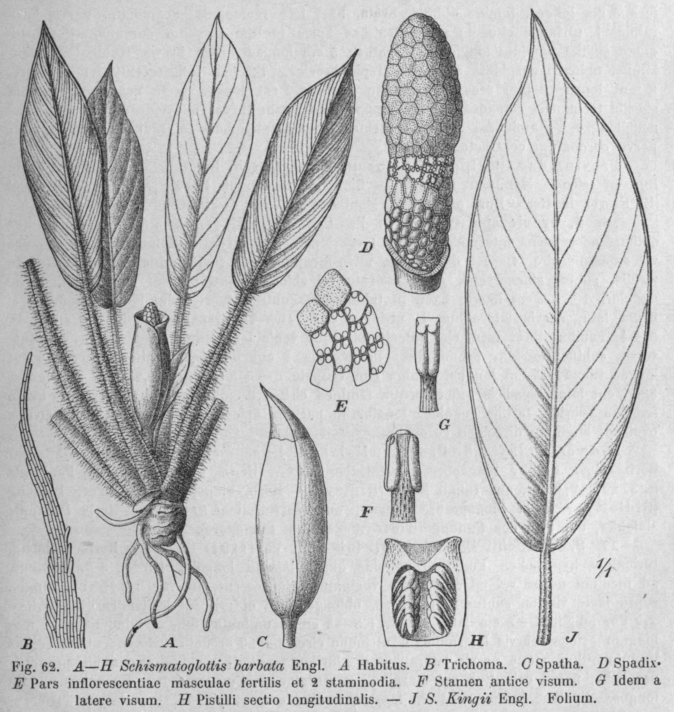 Schismatoglottis barbata from Das Pflanzenreich